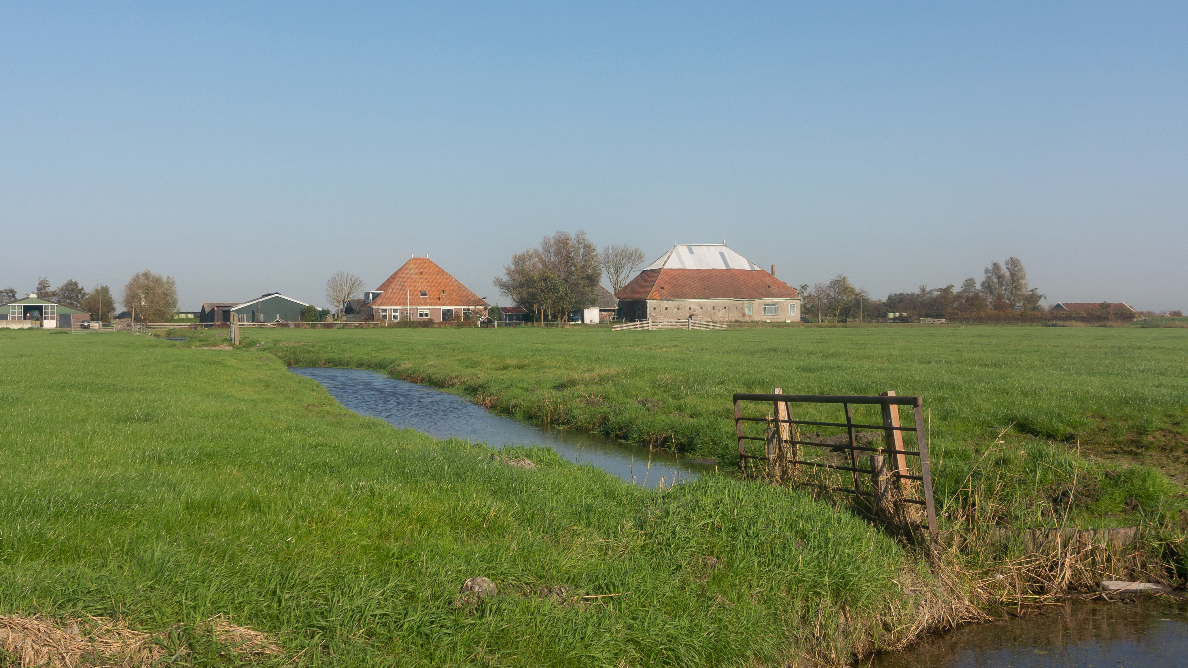 West-Graftdijk, farms in the polder